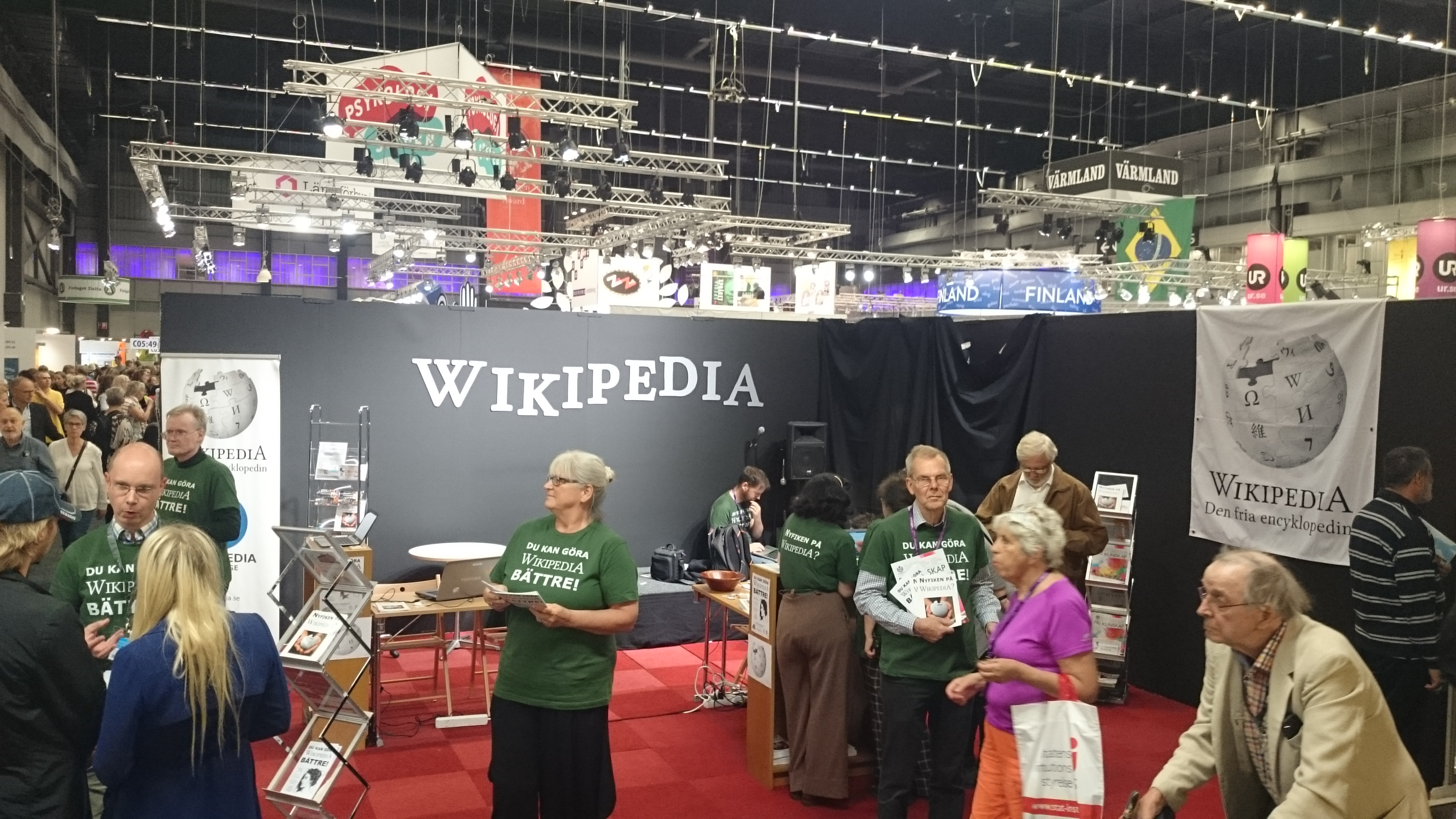 Wikimedia Sverige at Göteborg Book Fair 2016.